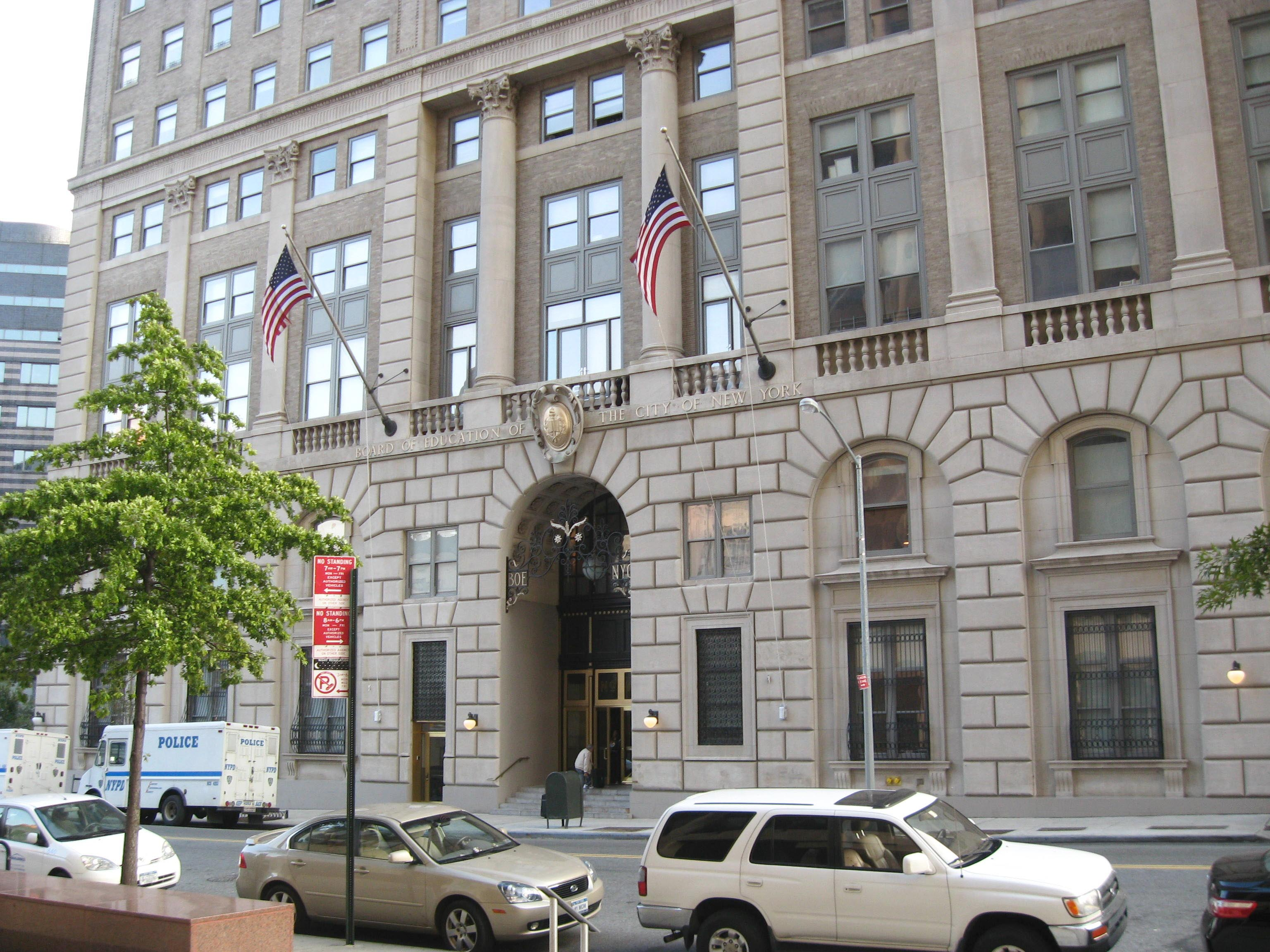 Looking south across Livingston at en:110 Livingston Street, west of Court Street, WTM goal #J2 at sunset of a sunny day This photo is of Wikis Take Manhattan goal code J2, 110 Livingston Street.